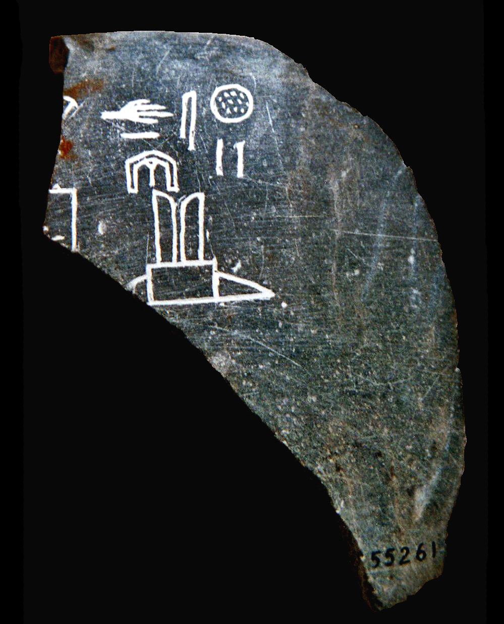 Fragment of a diorite cup, which documents the celebration of the 2nd Heb-sed festival of Horus Qa'a. Provenance: Djoser's step pyramid, galleries H and B, now in the Egyptian Museum Cairo, JE 55261 The importance of this passage lies mainly in its preserved text. It documents the 2nd Heb-sed of a king, which judging by other similar examples, can only be Horus Qa'a. Most of the serekh of the king, on the left of the inscription, has been lost. Gunn believes however, that the little that remains is the arm sign of the Horus name Qa'a. The celebration of this 2nd Heb-sed, leads us to believe that the reign of Qa may have been a long one. bibliography: Gunn, A.S.A.E XXVIII, p. 158. Pl I, 8.